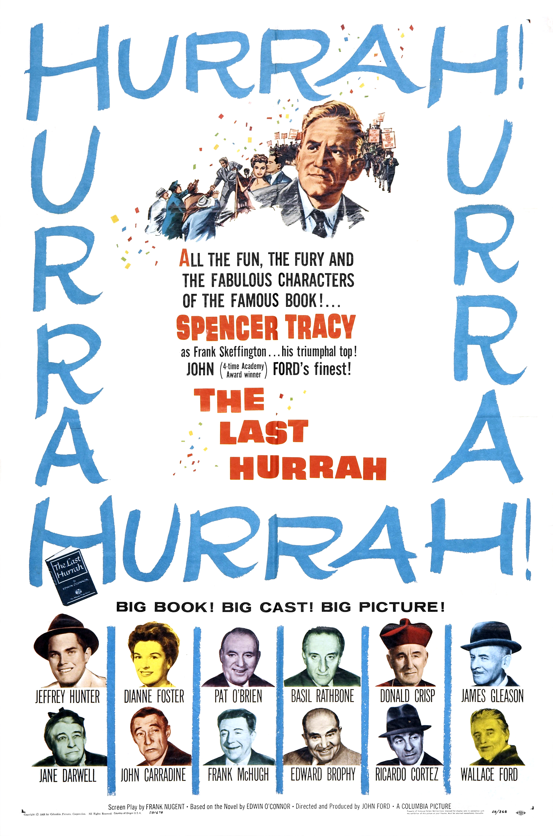 Theatrical poster for the film The Last Hurray (1958)